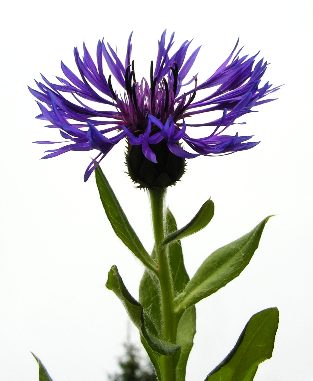 The inflorescence of cultivated Centaurea montana. Moscow region, Russia.